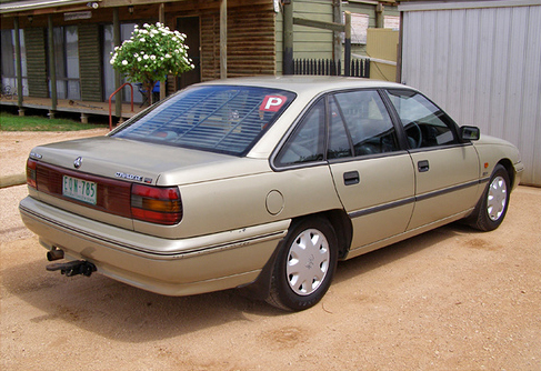 1992 Holden VP Commodore Executive sedan.